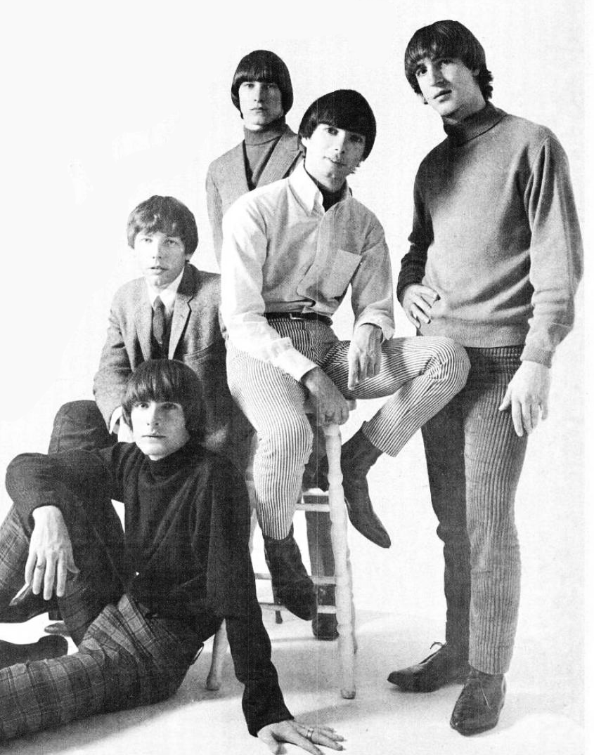 Trade ad for The Leaves's single "Hey Joe".To better adapt it to his respective Wikipedia article, the ad was cropped and cleaned in a graphics editing program. The original can be viewed on the source below.